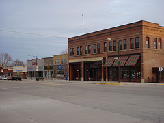 Buildings along Broad Street in downtown Story City, Iowa, United States.